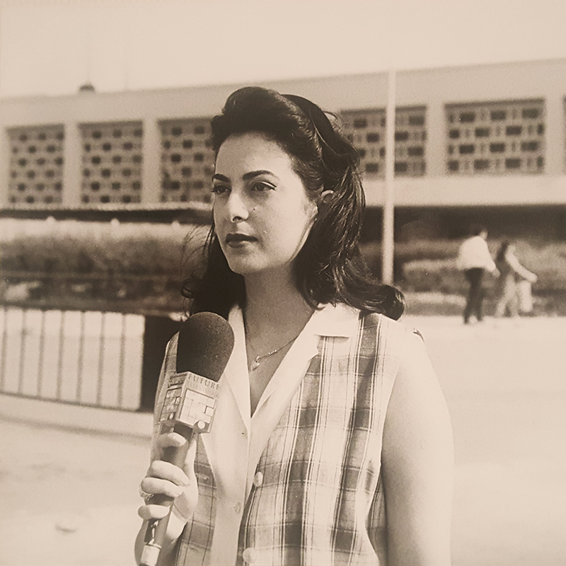 Zeina Soufan reporting for Future Television - Beirut Airport (May 23, 1994)